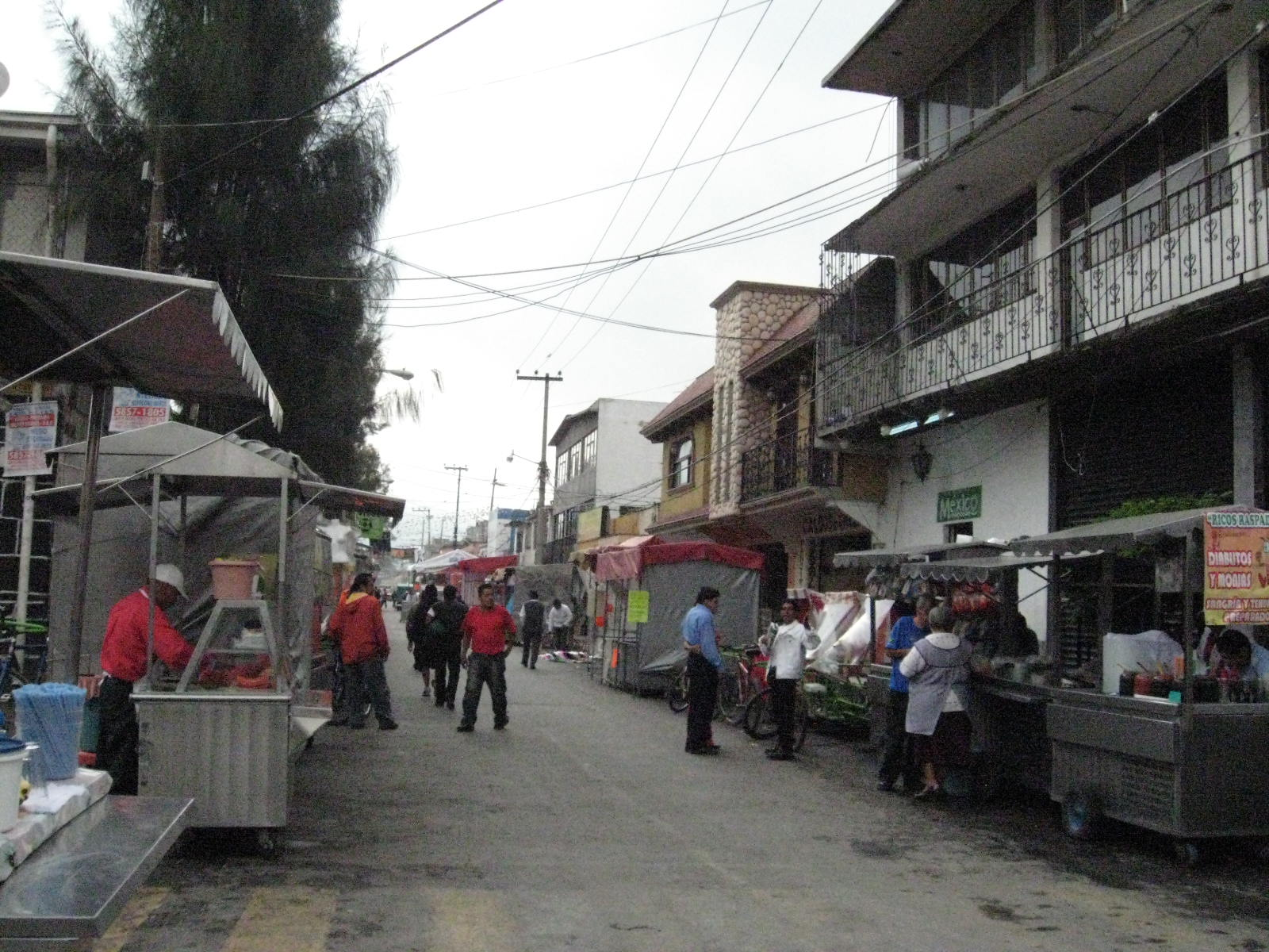 Street vendors on Hombres Ilustres street in Los Reyes Acaquilpan State of Mexico Mexico near the municipal palace